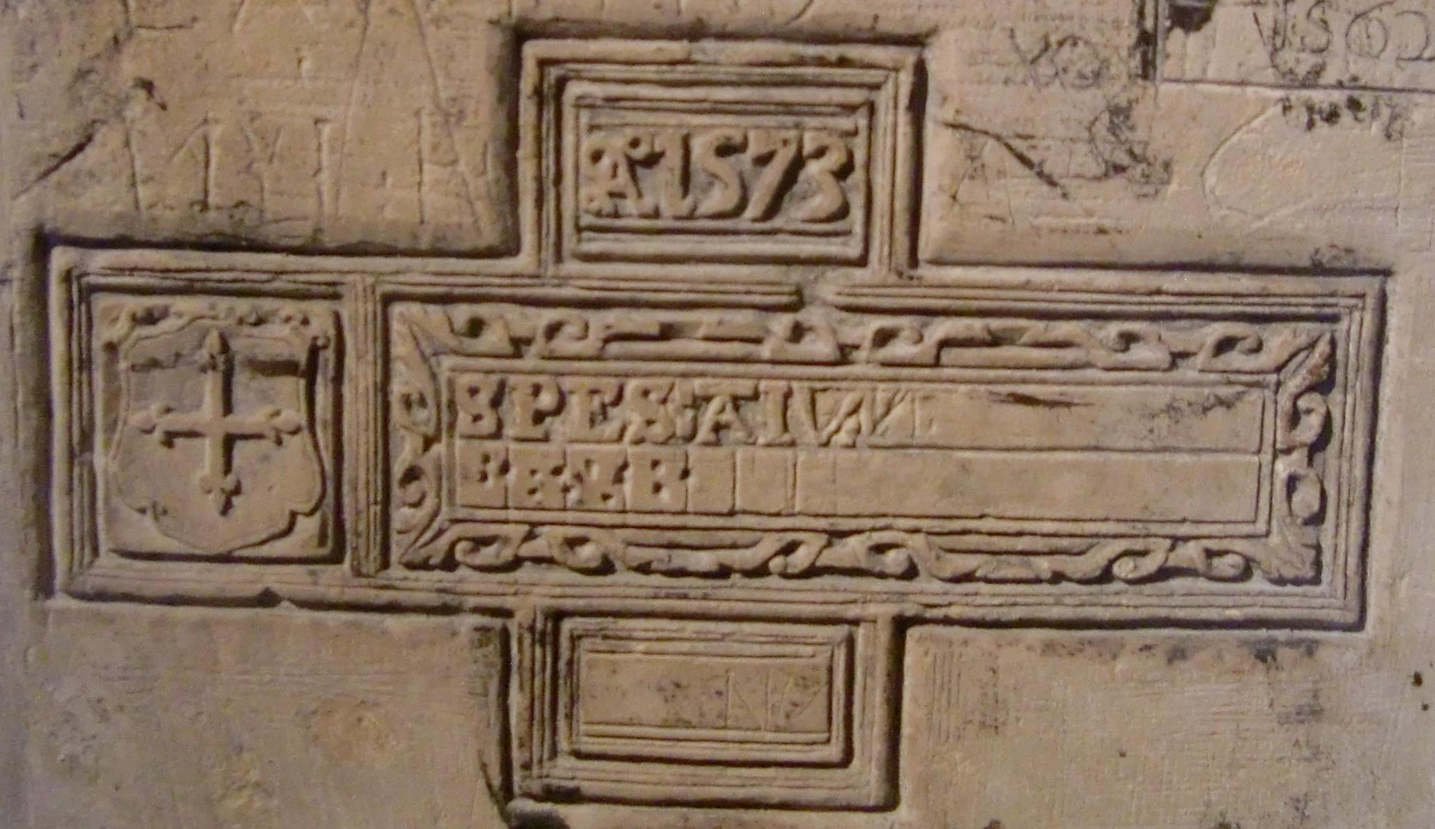 Bannister Coat of Arms in Tower of London